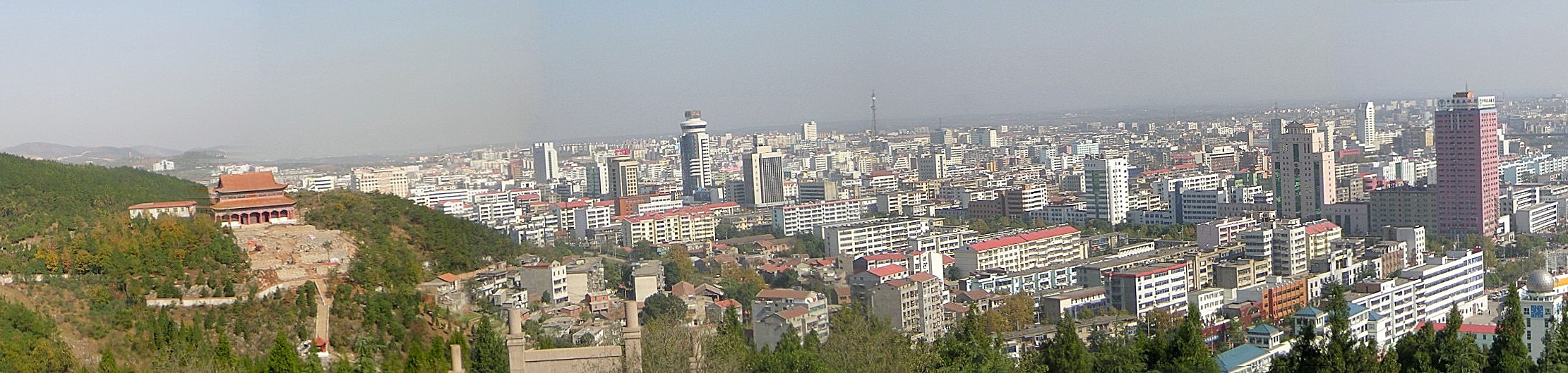 Taken by Xingsuo Li, 2000. Jsteph 19:16, 15 August 2006 (UTC)